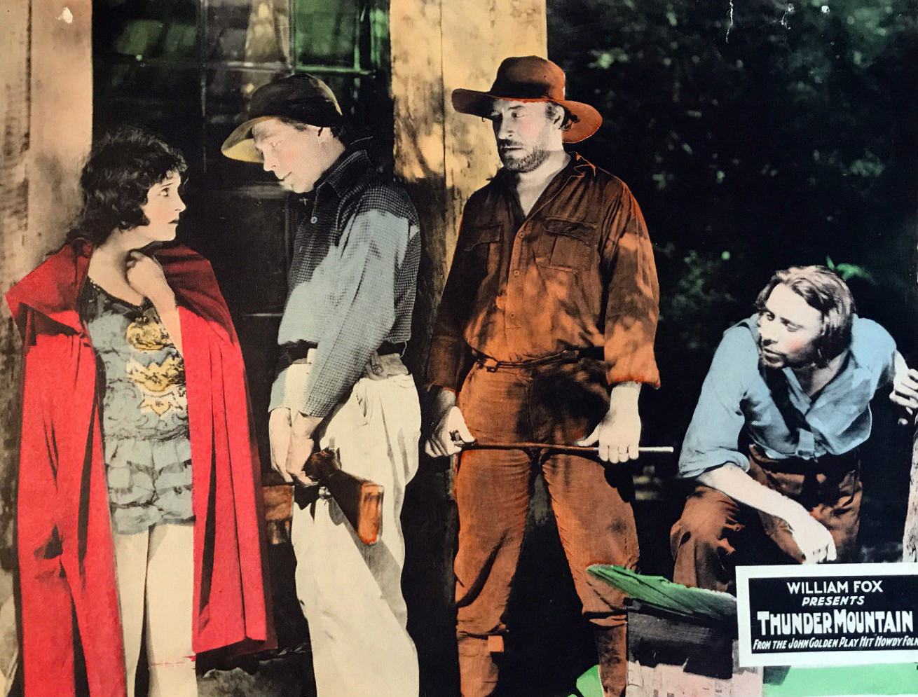 Lobby card for the American drama film Thunder Mountain (1925).